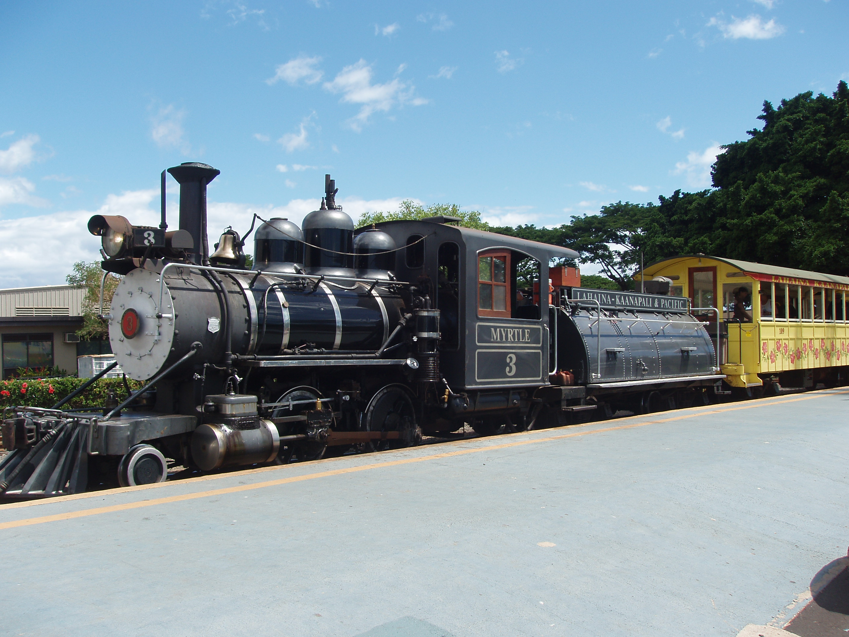 Lahaina, Kaanapali and Pacific Railroad Train